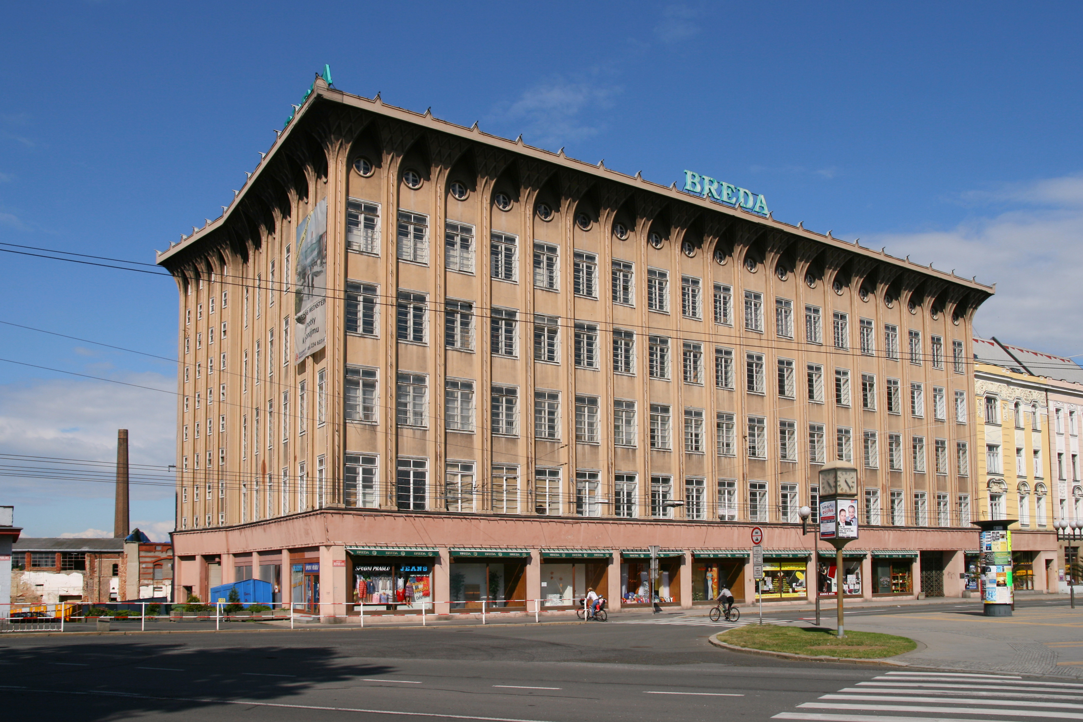 Breda building in Opava.